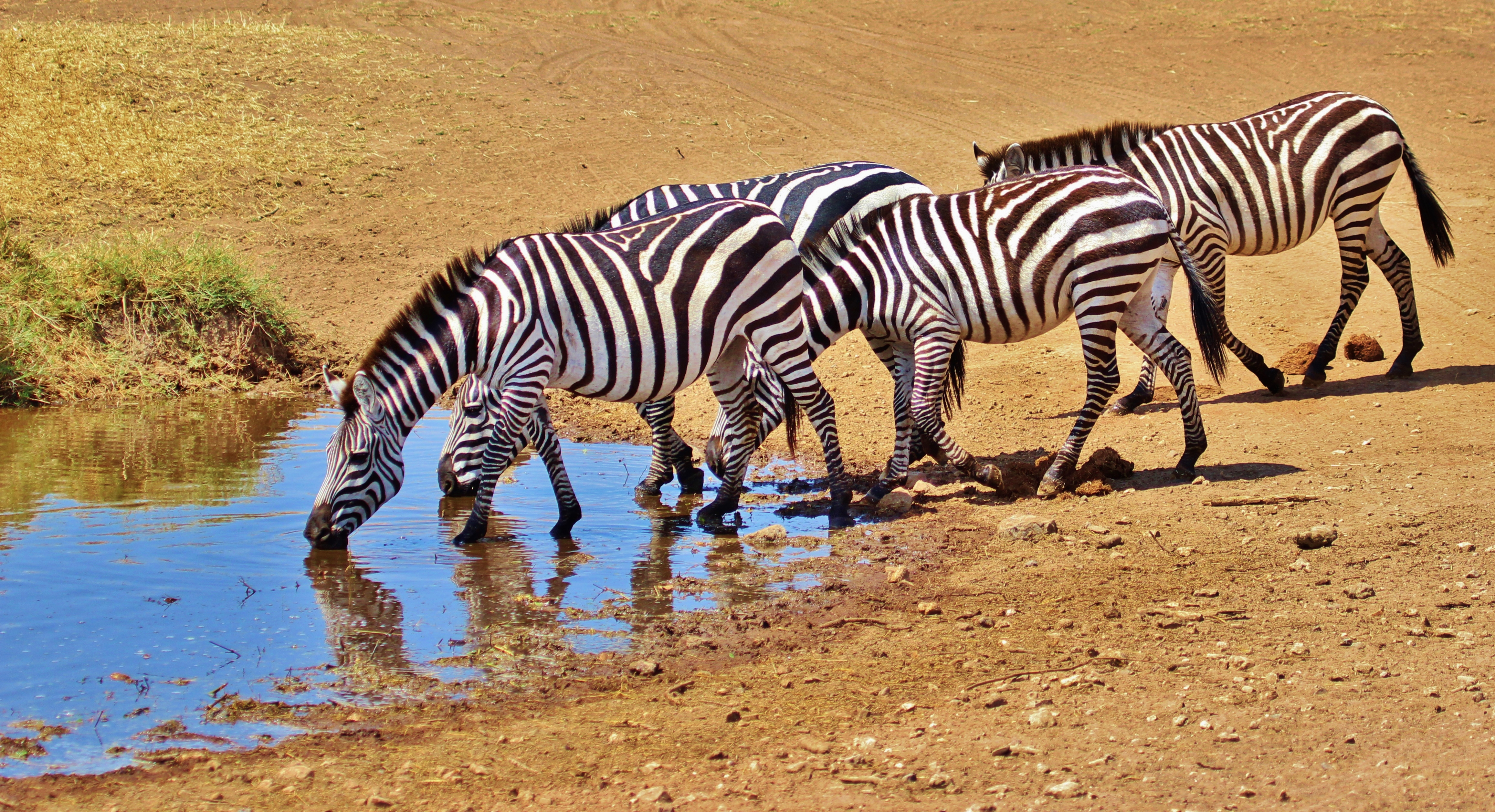 Typical Scene in the Serengeti, Tanzania